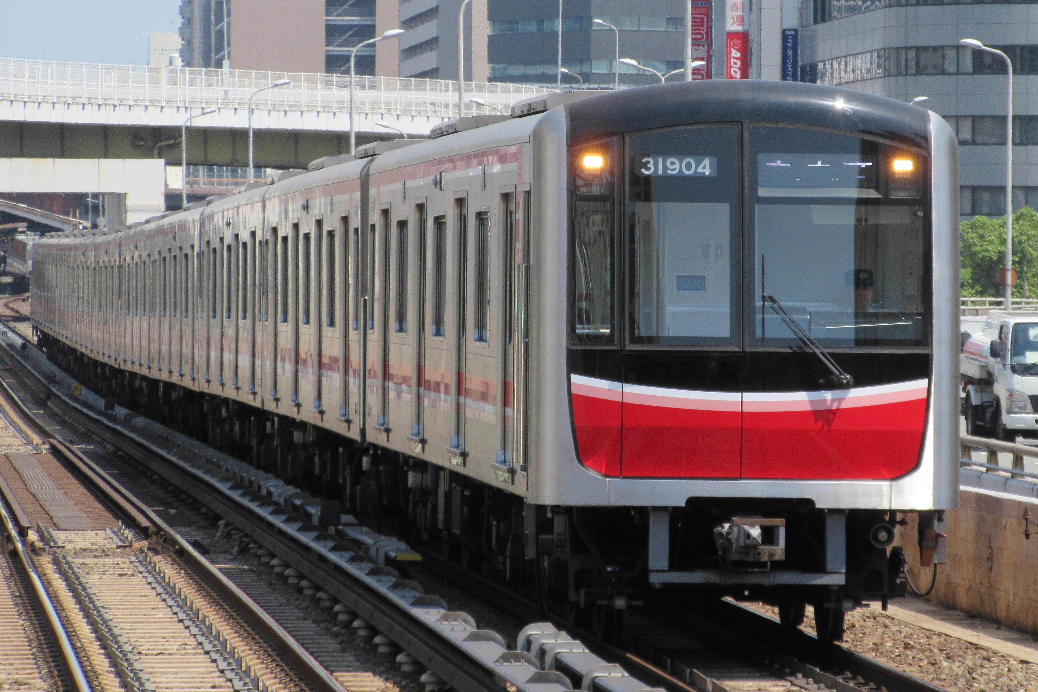 Osaka Subway 30000 series EMU set 31904 approaching Nishinakajima-Minamigata Station